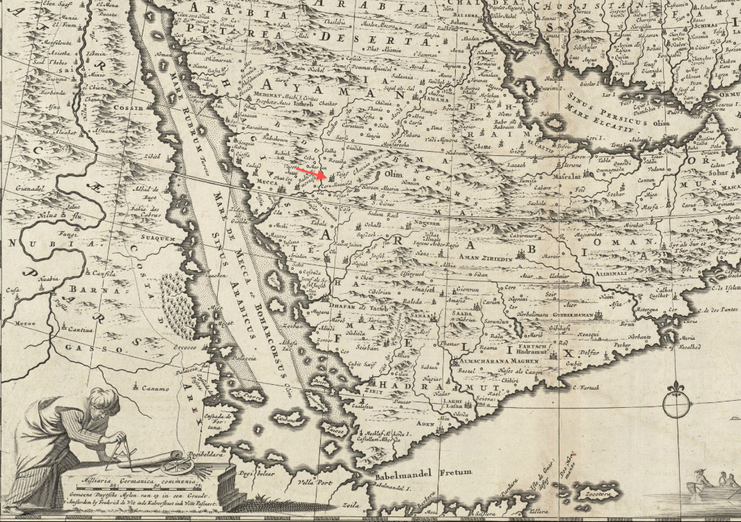 Detail of map: Nova Persiae Armeniae Natoliae et Arabiae Author: Wit, Frederik de Publisher: Wit, Frederik de Date: 1680 Scale: [ca. 1:9,000,000]